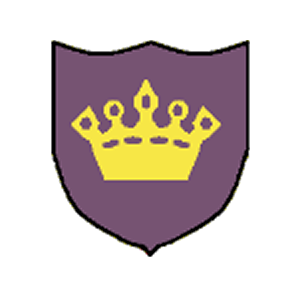 Crest of Przyborów